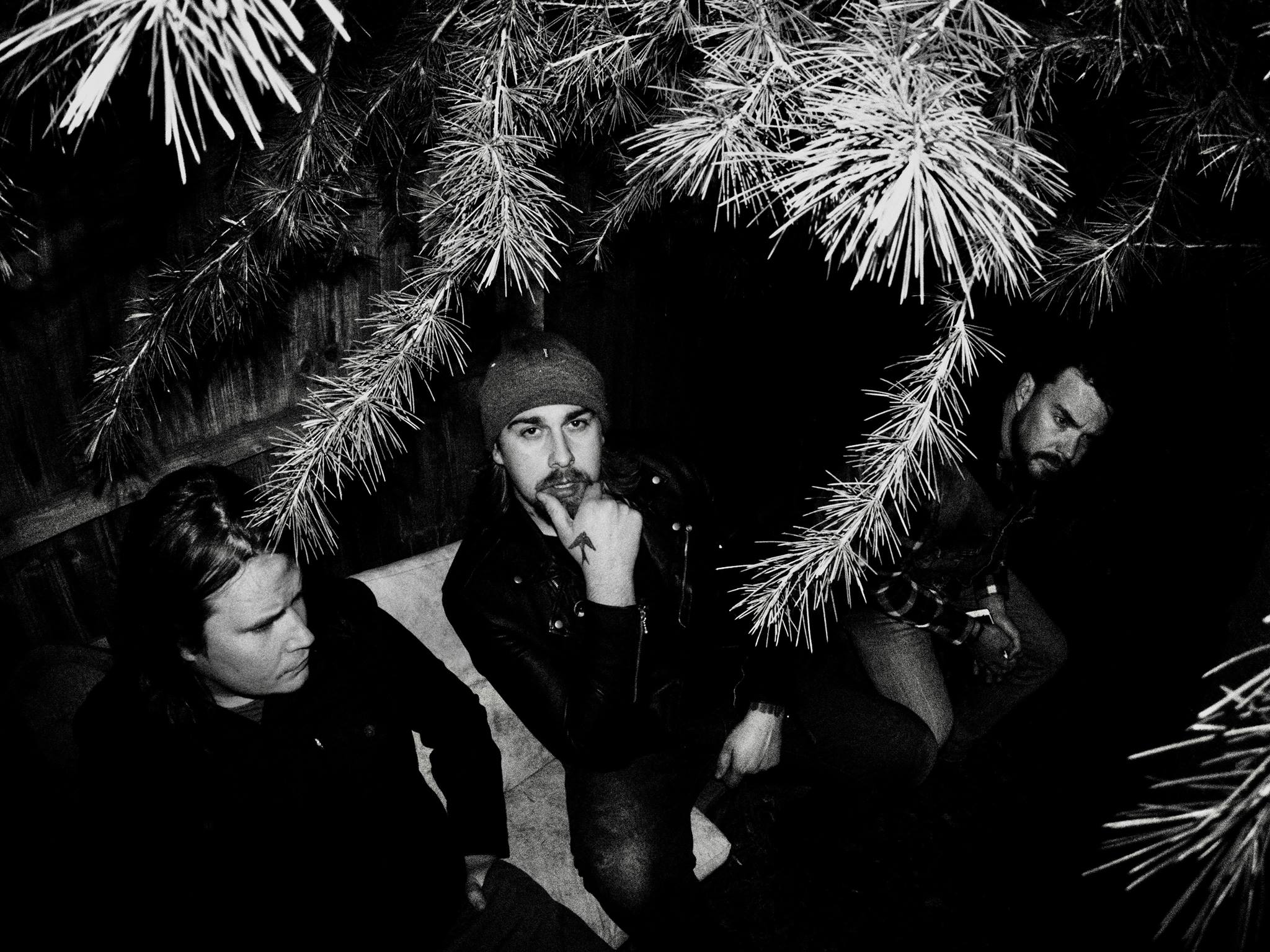 Witchingseason Band